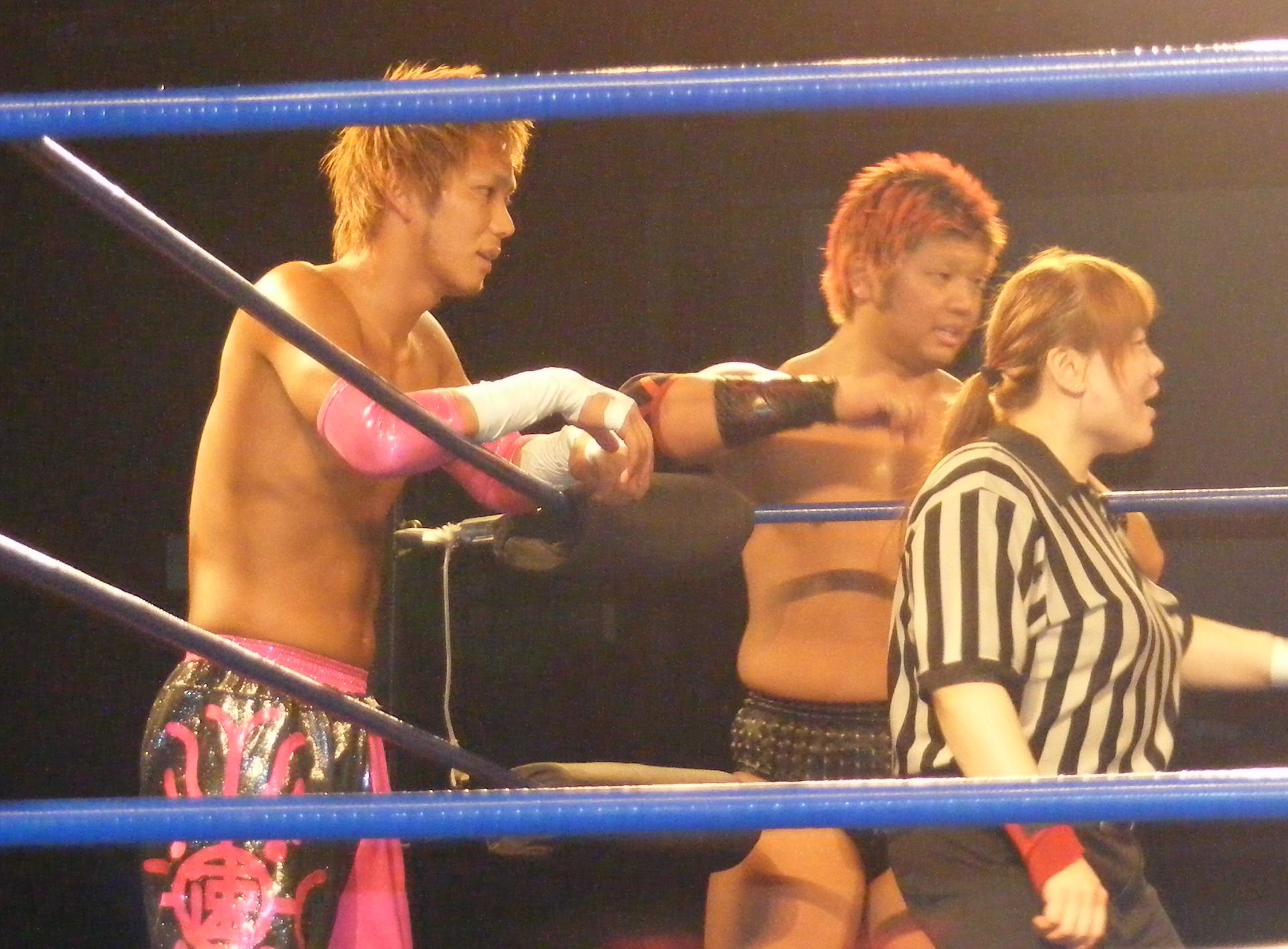 Professional wrestlers Atsushi Kotoge and Tadasuke at Chikara King of Trios 2010.